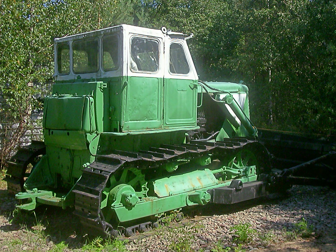 Bulldozer T-100 from the Chelyabinsk Tractor Plant